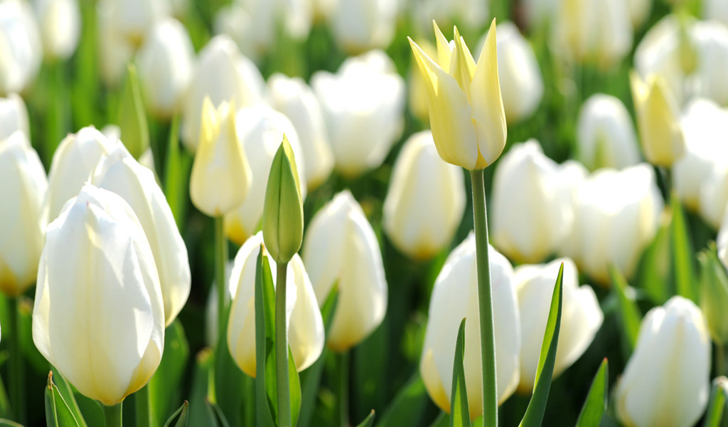 Flowers